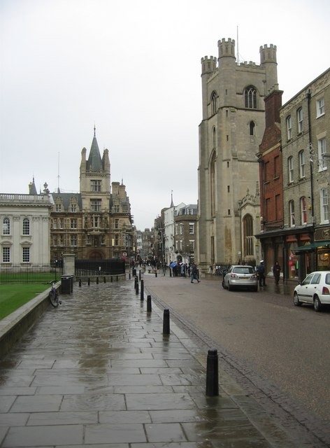 A damp King's Parade I pity the visitors who come from all over the world who see Cambridge on days like this.